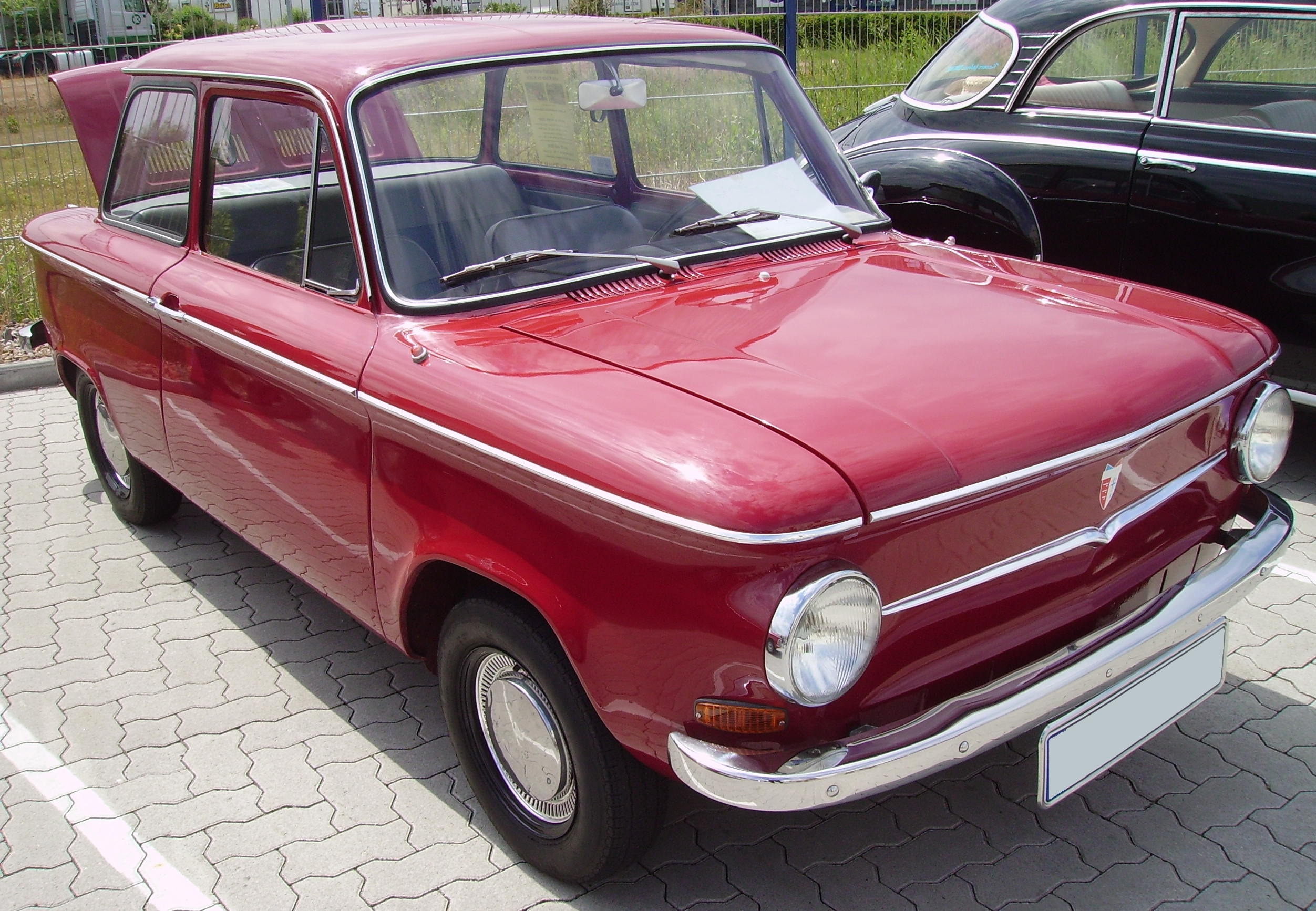 A NSU Prinz 4L